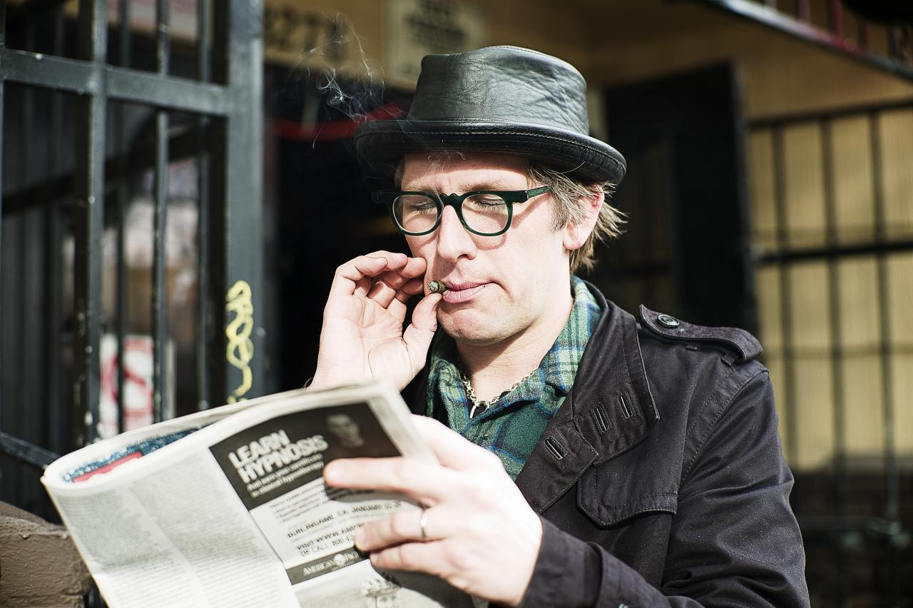 the hipster